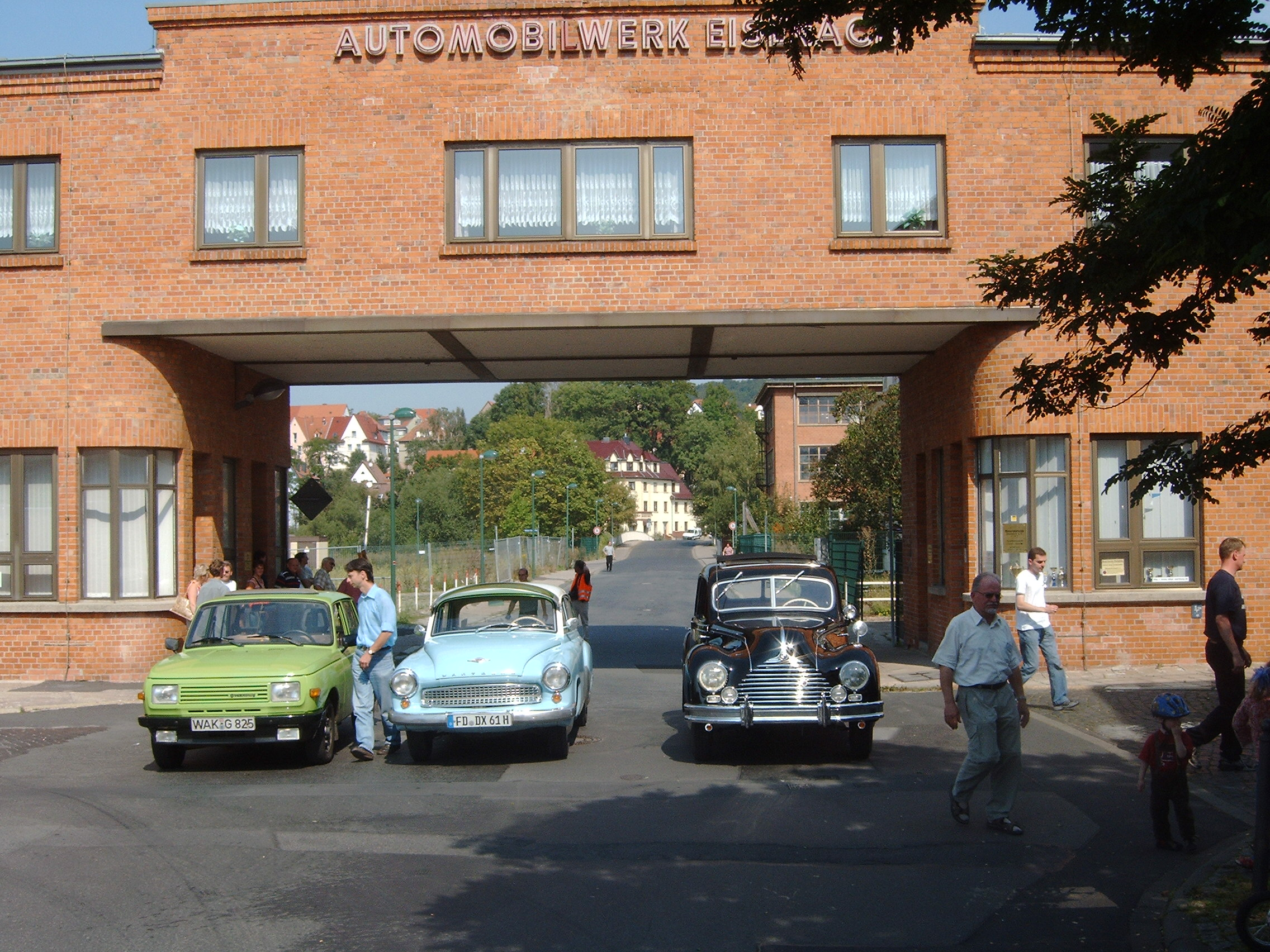 Wartburg 353, Wartburg 311 and EMW 340